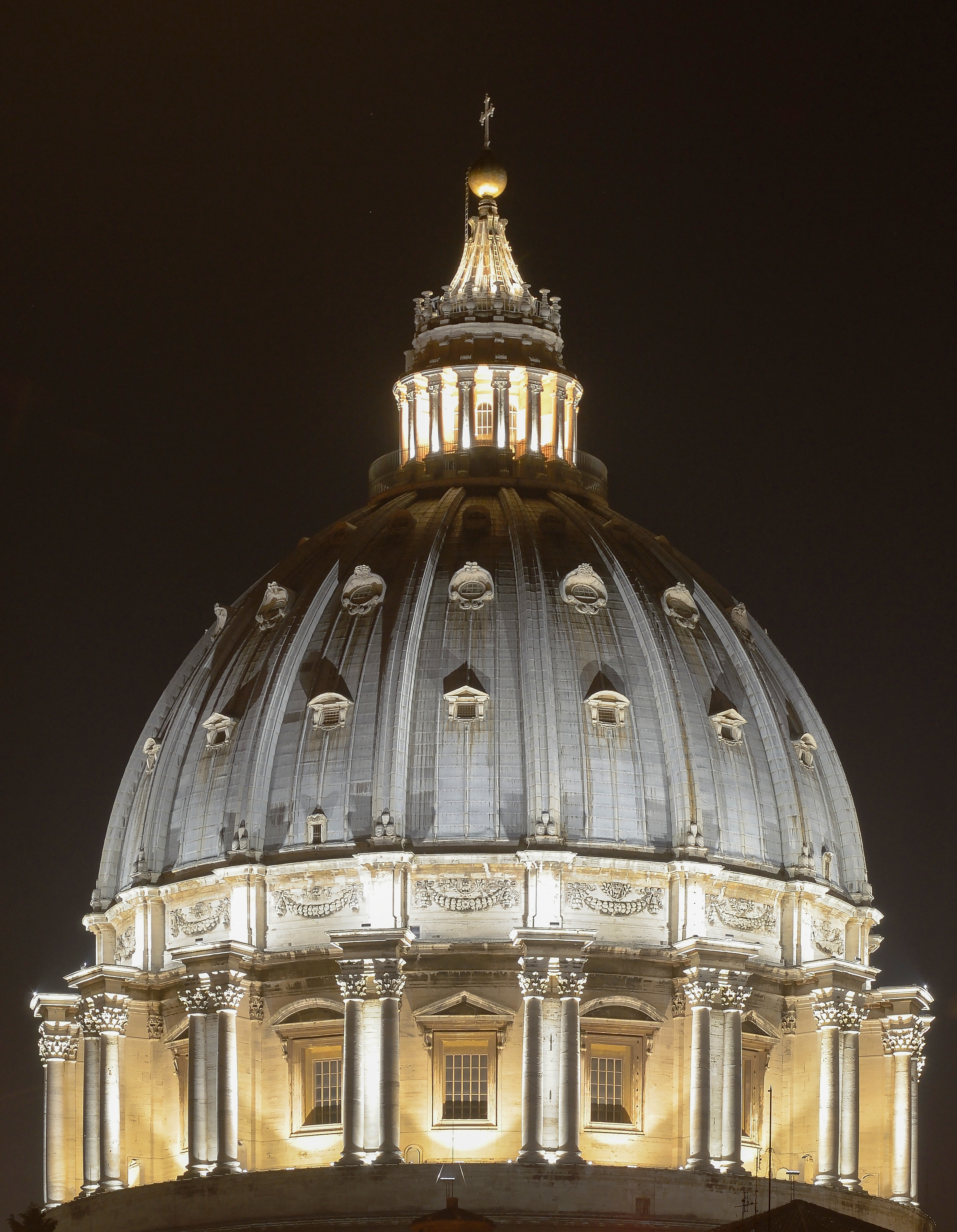 Dome of S.Peter in the night